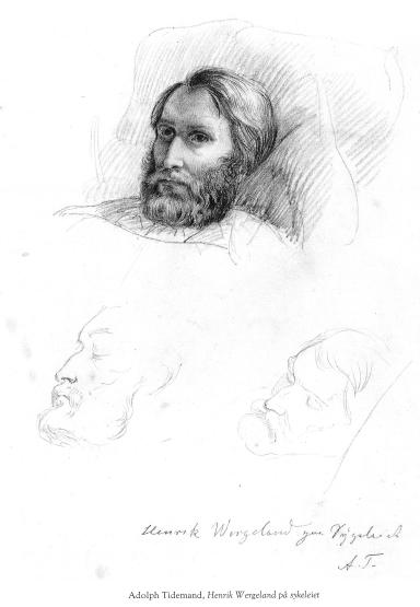 Drawing of Norwegian author Henrik Wergeland (1808-1845) at his death bed, by Norwegian painter and artist Adolph Tidemand (1814-1876); made 1844